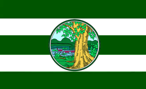 Flag of Phichit Province